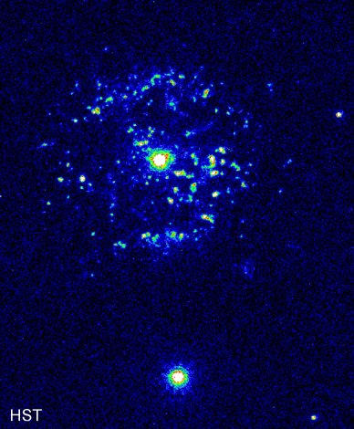 Hubble telescope picture of T Pyxidis, from a compilation of data taken on Feb. 26, 1994, and June 16, Oct. 7, and Nov. 10, 1995, by the Wide Field and Planetary Camera 2.